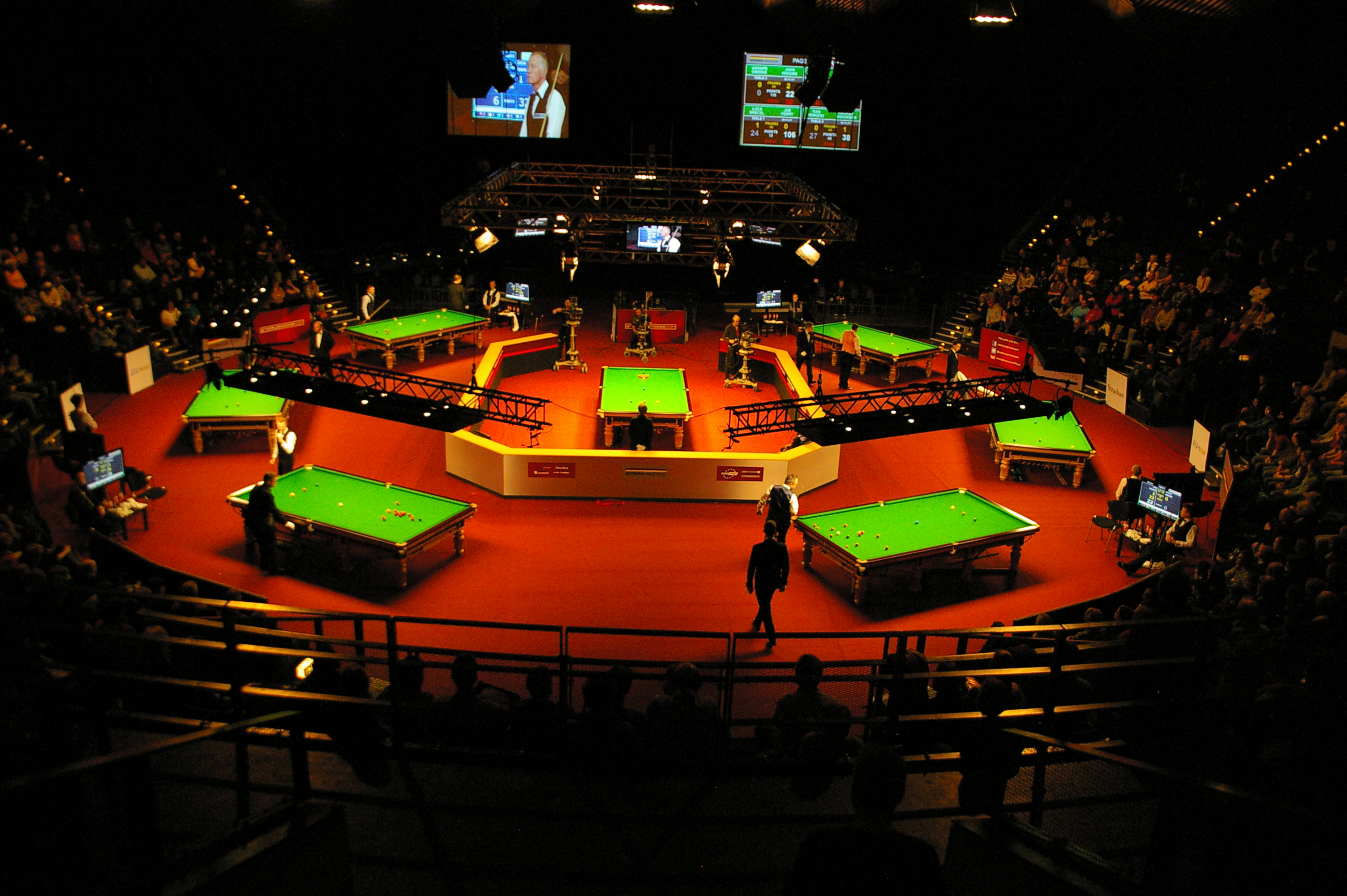 View from the balcony.